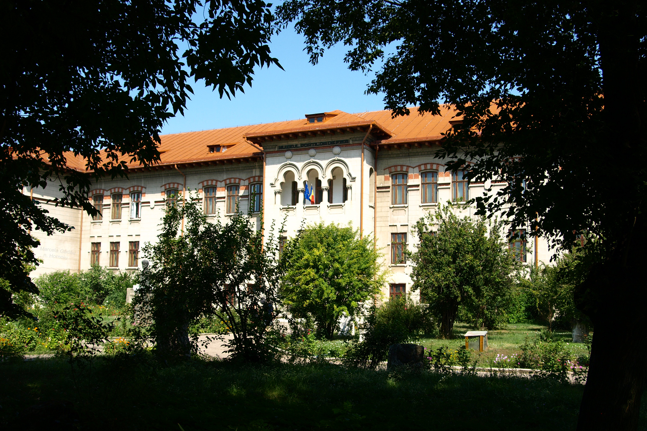 Iron Gates Region Museum. Date photo taken: august 2009